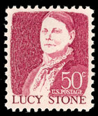 US stamp honoring Lucy Stone